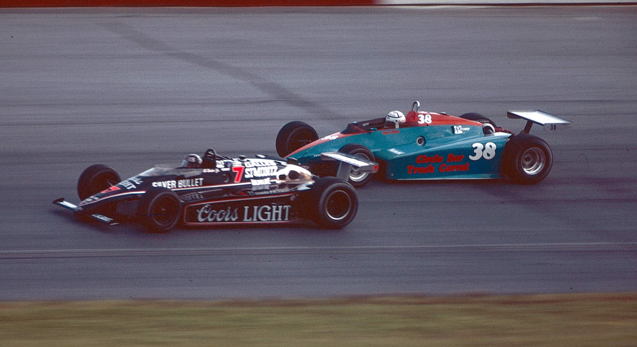 1984 IndyCars at Pocono Raceway Al Unser, Jr. car 7, Chet Fillip car 38